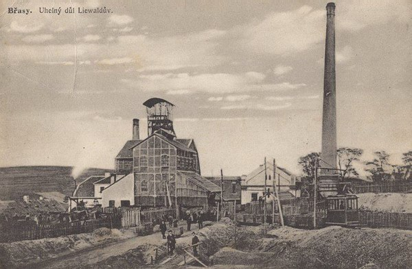 Důl Liewald,_Uhelný_důl_Břasy